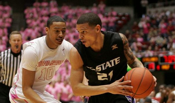 Diante Garrett vs. Denis Clemente